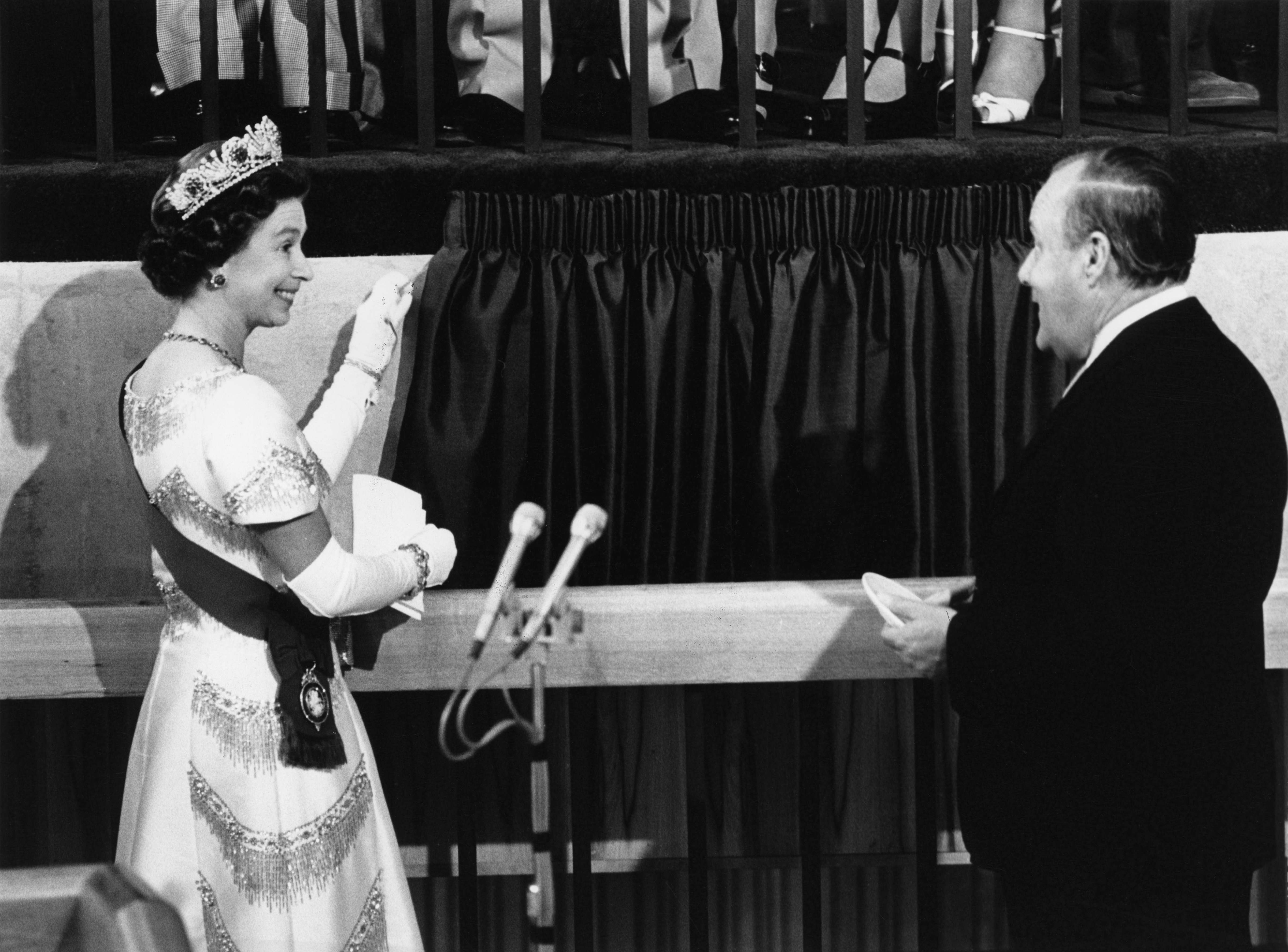 Queen Elizabeth II opening the Beehive 28 February 1977Robert Muldoon, Prime Minister"plaque curtain not opening as expected"